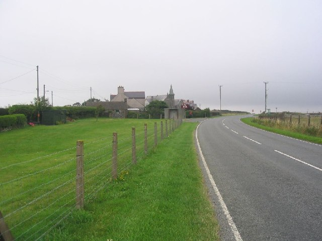 Llanrhyddlad. The A5025 curves to the left in this image taken from SH331890 looking NE towards Llanrhyddlad.